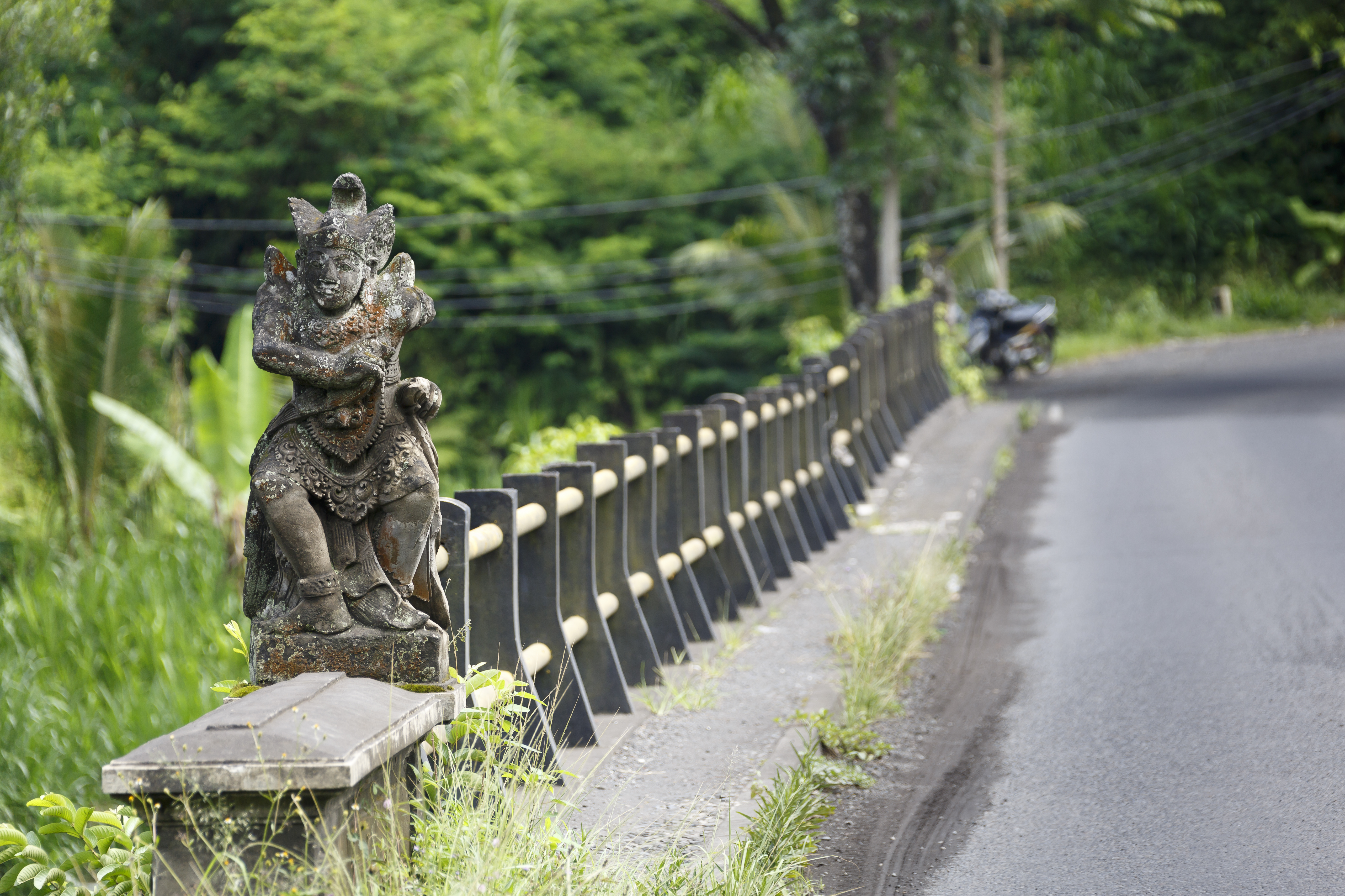 Desa Muncan, Bali, Indonesia: The bridge over Yeh Unda River alongside Jalan Raya Muncan, protected by a hindu godess scultpture